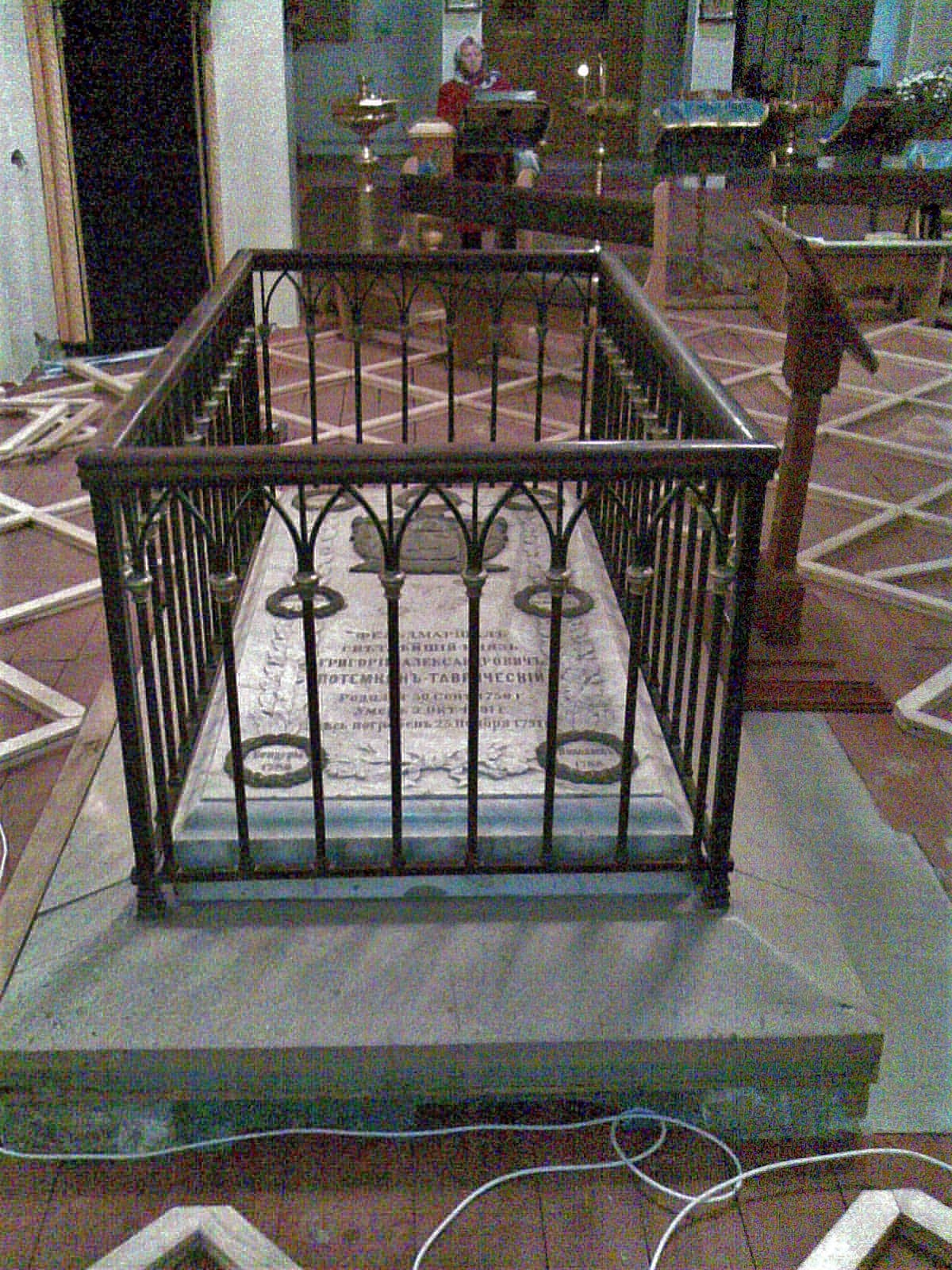 Potemkin, Grigori Alexandrovich